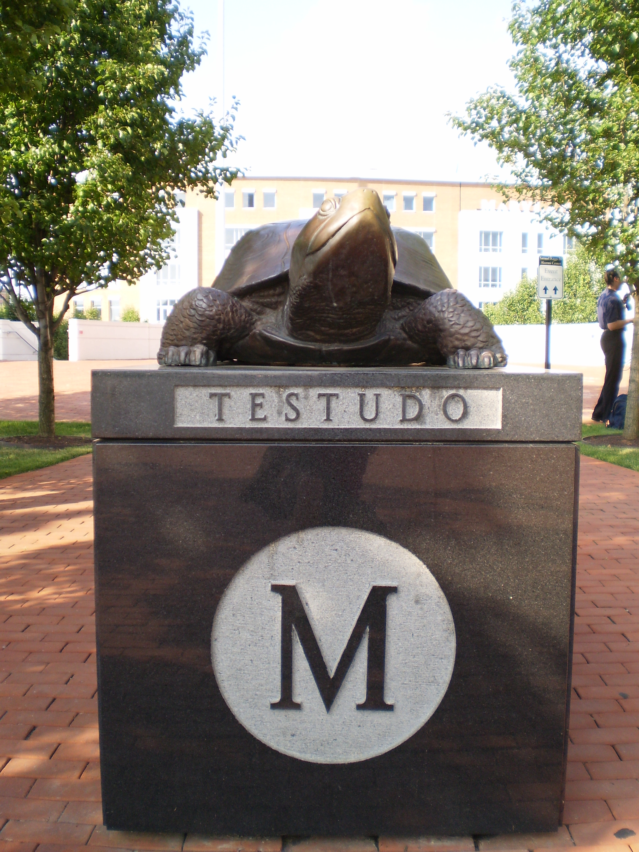 Statue of Testudo, the mascot of the University of Maryland, College Park, behind the Riggs Alunmni Center on UMD's campus.